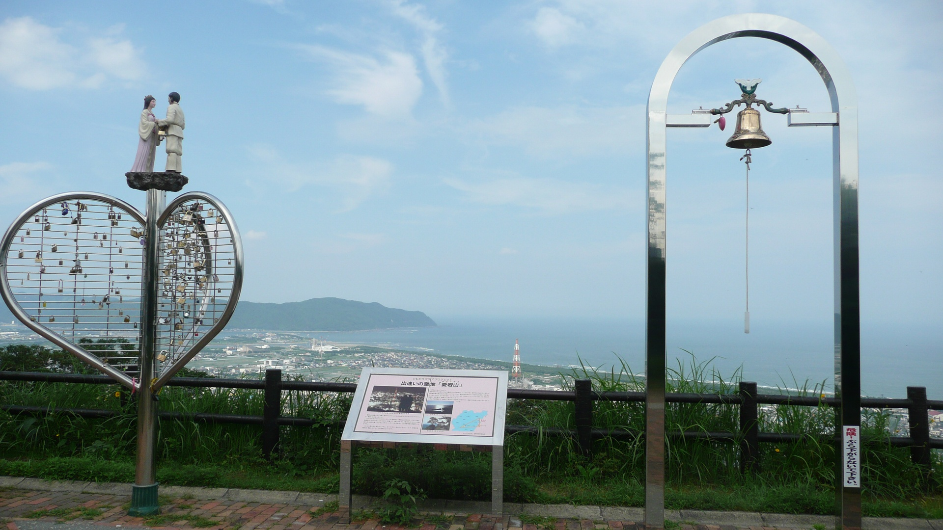 The Love Lock Monement on Mt. Atago - Nobeoka City, Miyazaki, Japan.